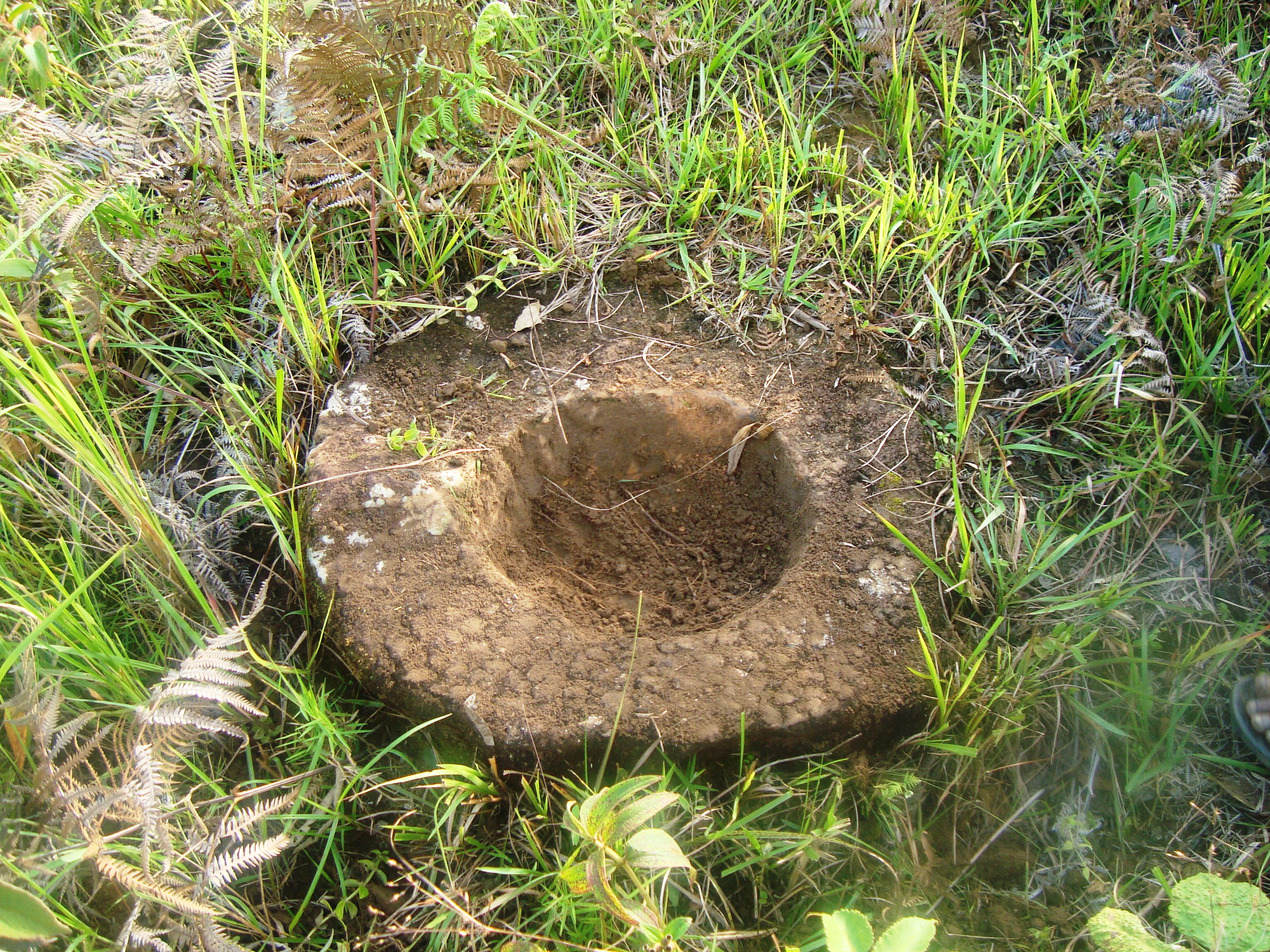 A mortar used for grounding rice and other seeds, near Khobak village.